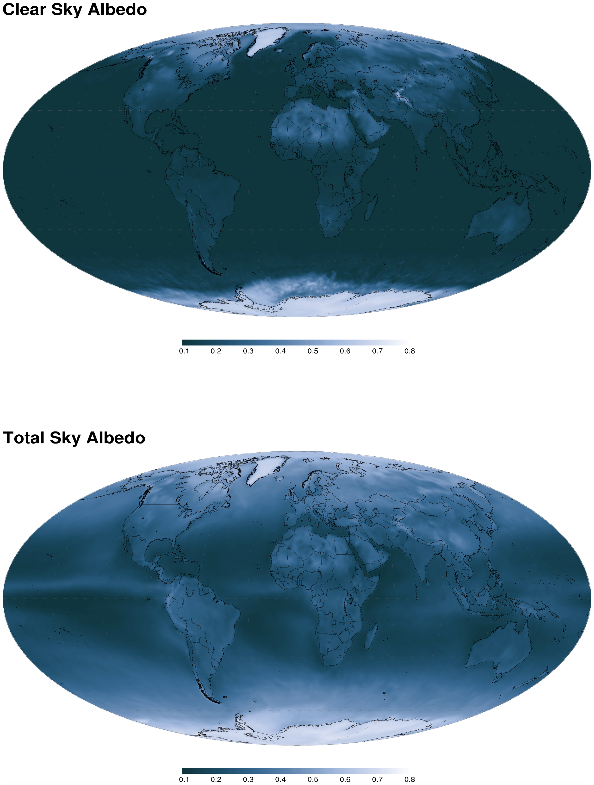 CERES-Aqua 2003-2004 mean annual clear sky and total sky albedo. Clear sky albedo is the fraction of the incoming solar radiation that is reflected back into space by regions of the Earth on cloud-free days. Total sky albedo include cloudy days. Data